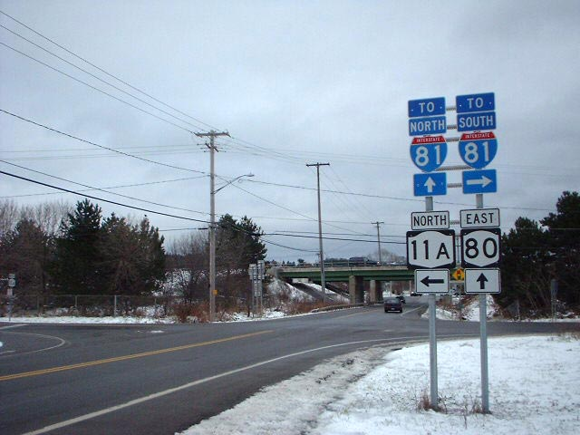 Route 11A at New York State Route 80 in Onondaga County, New York.